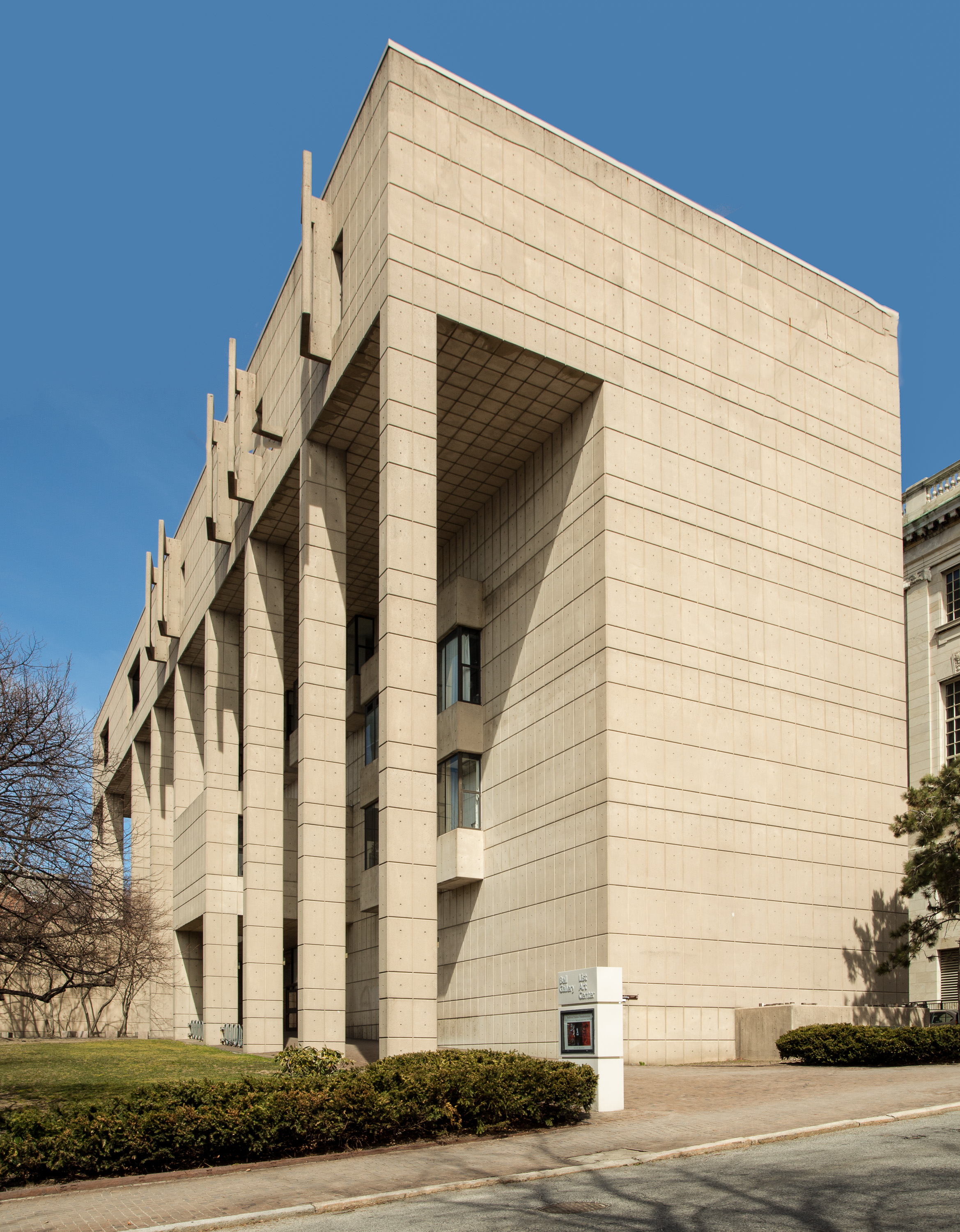 List Art Center, Brown University. Philip Johnson, 1971.